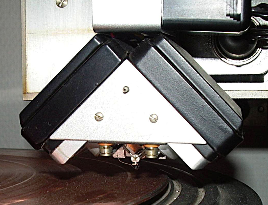 Cutting head of lathe for phonograph disks by Neumann, Berlin. Developed for TELDEC's Direct Metal Mastering process for vinyl records.